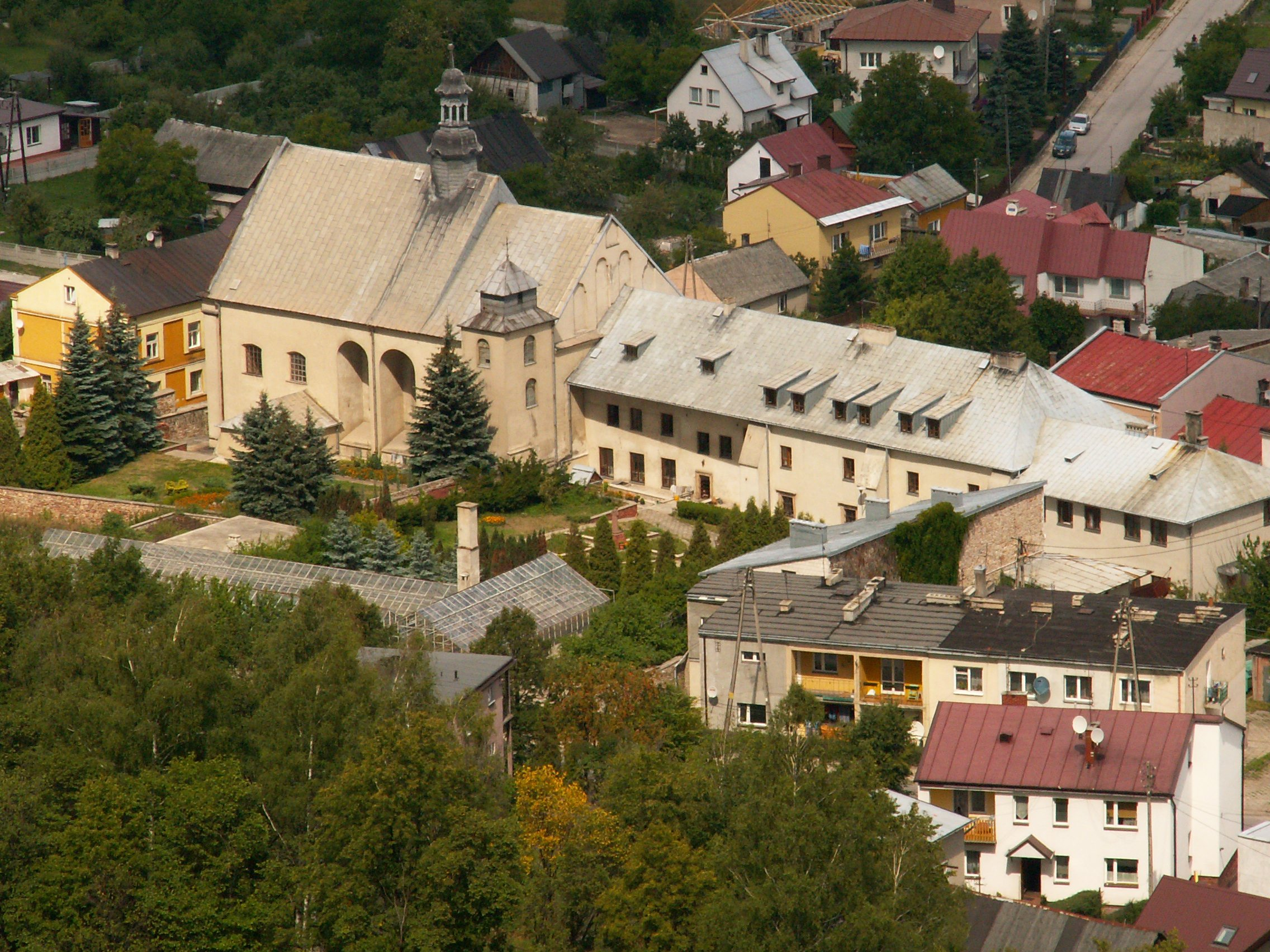 Order Of Poor Ladies Monastery in Chęciny (Poland)